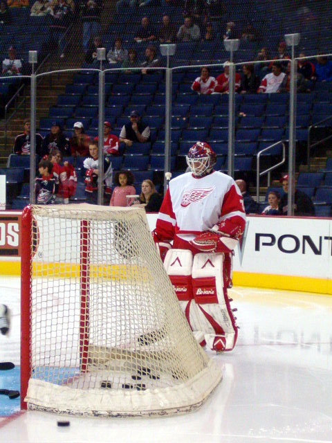 Manny Legace, professional hockey goaltender